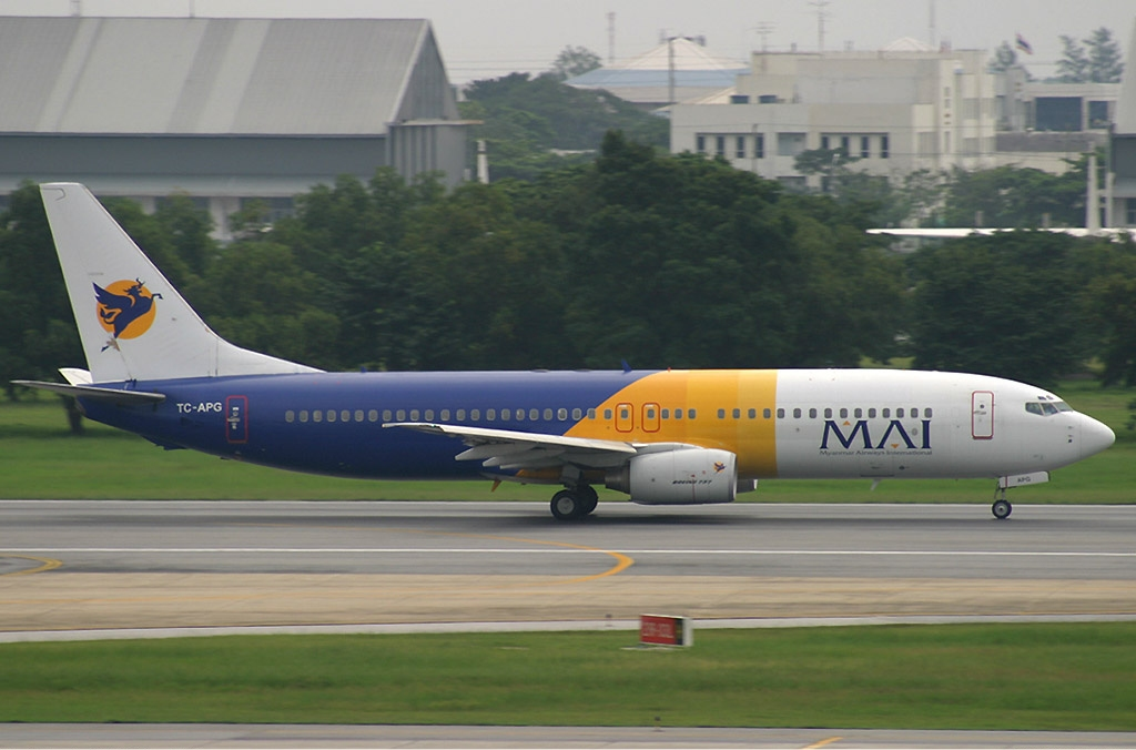 Myanmar Airways International Boeing 737-800